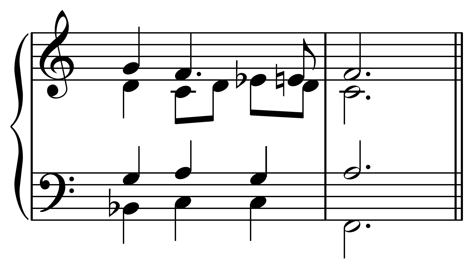 English cadence on F. Split seventh: E♮ and E♭.